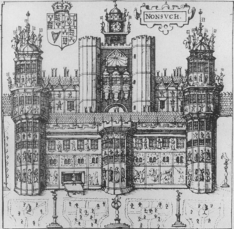 Bird's-eye view of the south front of Nonsuch Palace, Surrey, showing the arrangement of the north half of the Privy Garden with the principal garden ornaments; from John Speed, [Map of] Surrey Described and Divided into Hundreds, engraved by Jodocus Hondius (London, 1610), artist unknown.